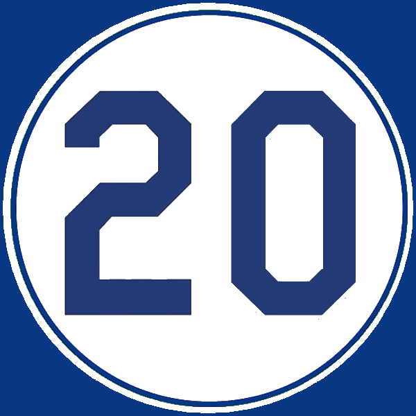 Don Sutton